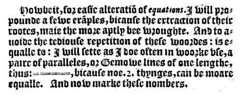 Robert Recorde's explanation of the first usage of the mathematical equals sign from which the current "=" symbol origins.